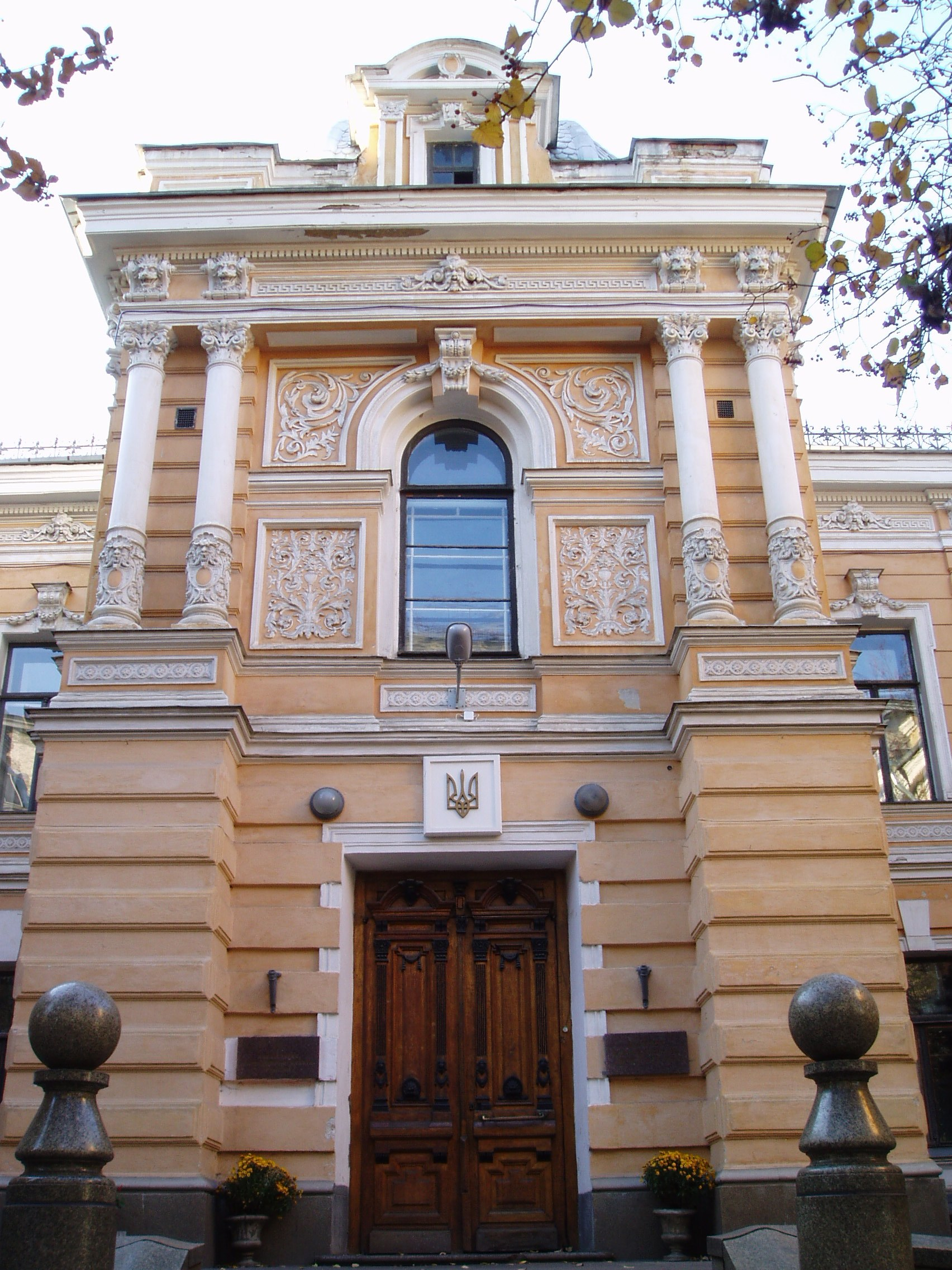 The portal of the Liberman manor